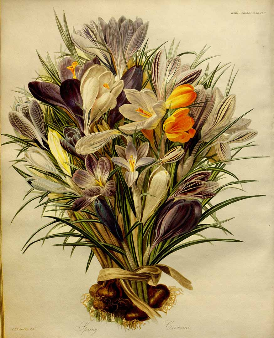 'Crocus spp.' - Transactions of the Royal Horticultural Society of London, vol. 7: t. 11 (1830)